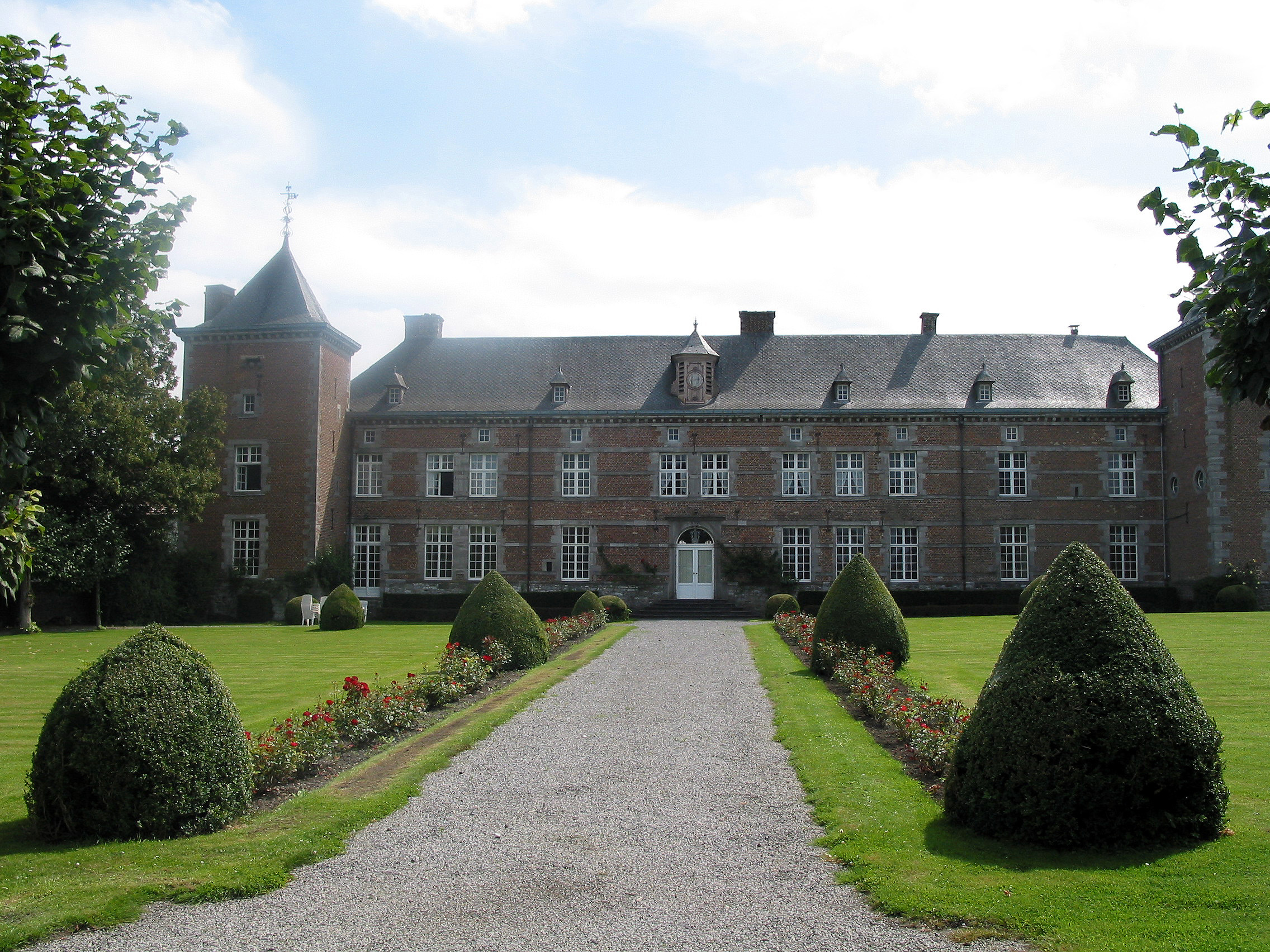 Bonneville (Belgiqum), the castle (XVI/XVIIth centuries).